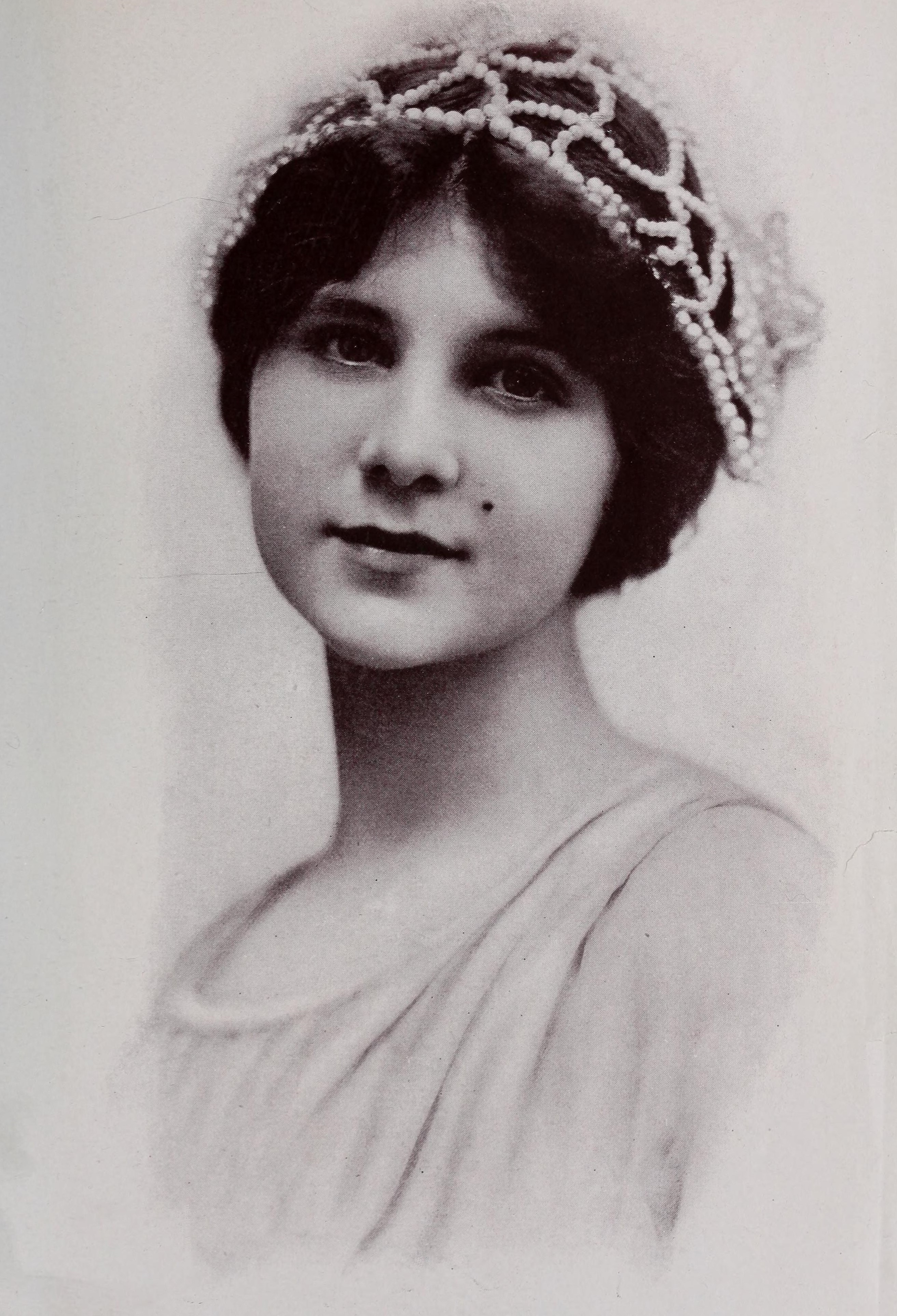 Actress Gladys Hulette